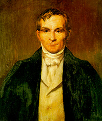 Philip Pendleton Barbour (1783-1841)